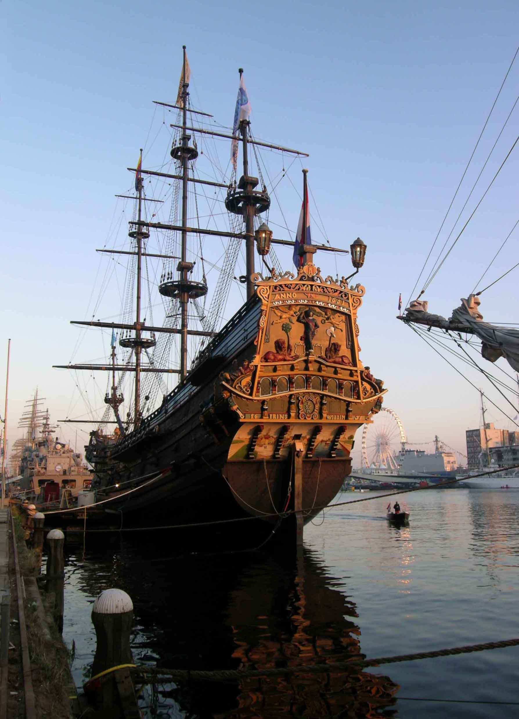 Photograph by Dirk van der Made (User:DirkvdM - for more photos see user:DirkvdM/Photographs). The stern of ship-replica Prins Willem at the nautical event Sail Amsterdam, 18 August 2005.